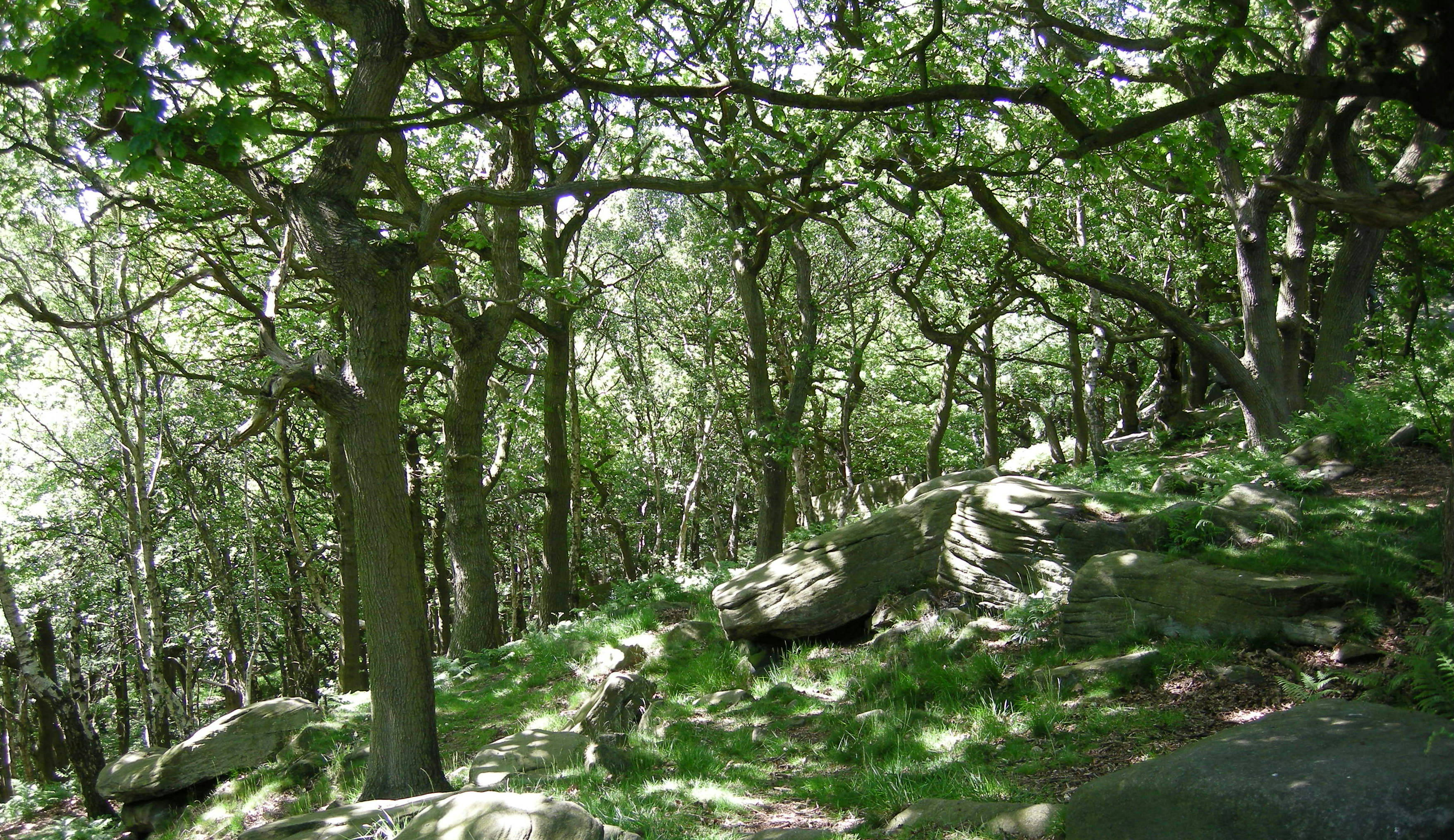 Shipley Glen, near Bracken Hall Countryside Centre and Museum, Baildon, West Yorkshire, England.